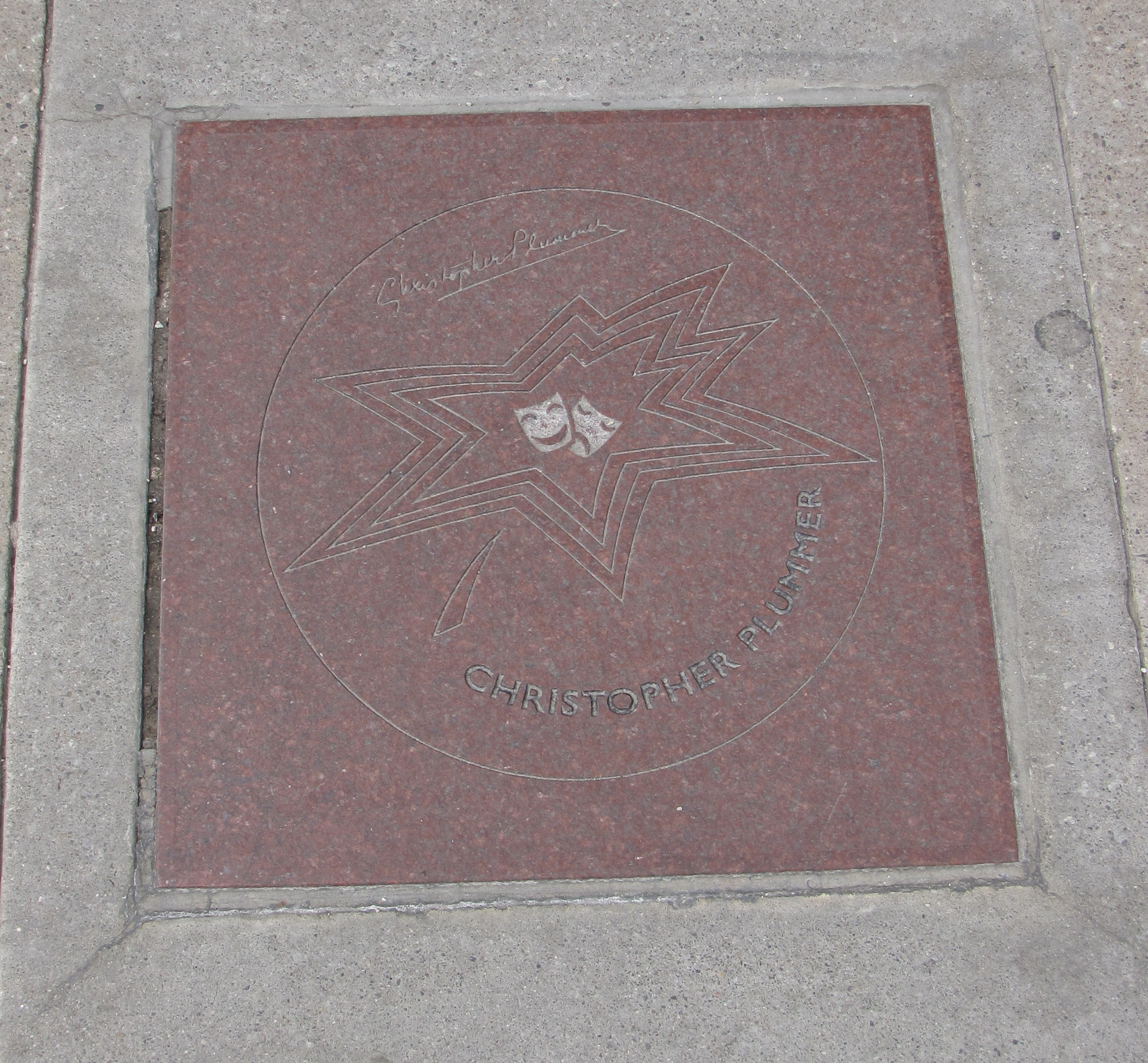 Christopher Plummer's star on Canada's Walk of Fame